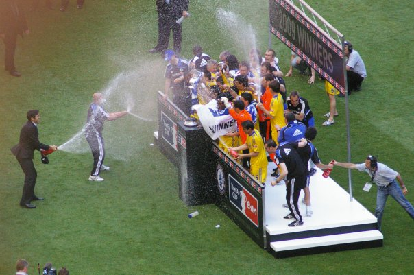 2009 FA Cup Final Celebrations